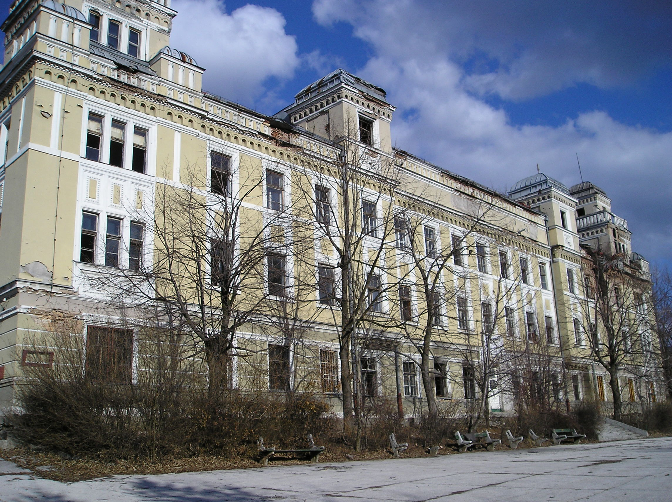 "Jajce kasarna" in Sarajevo